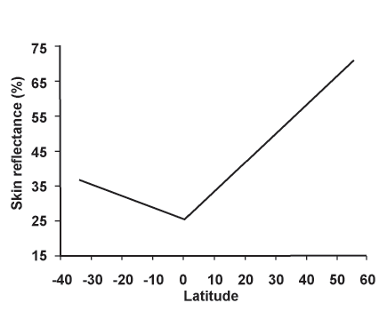 Relationship of skin reflectance to latitude. Average skin reflectance of populations located throughout the world.